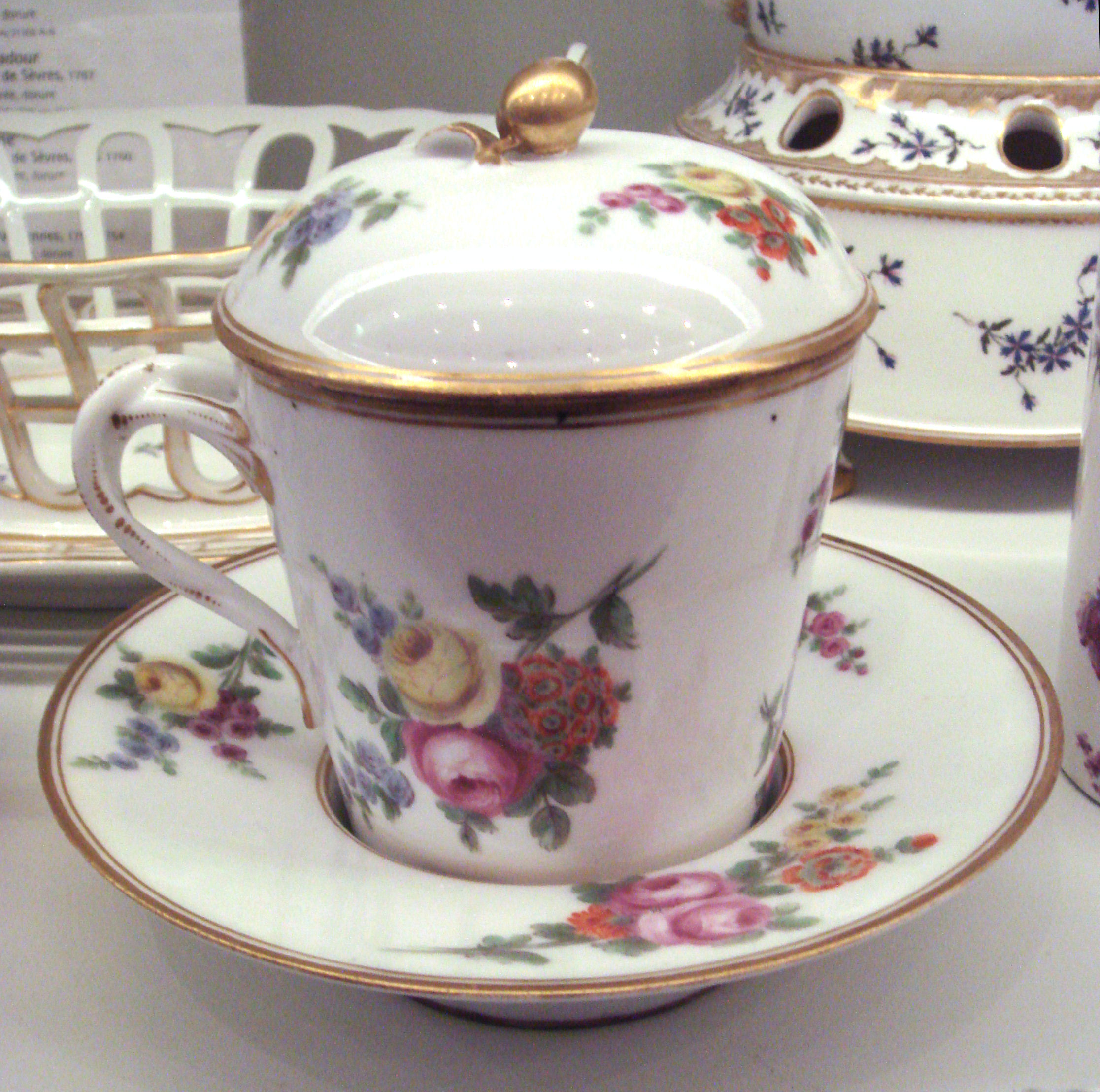 Glignancourt_hard_paste_porcelain_cup_Manufacture_de_Monsieur_1775.